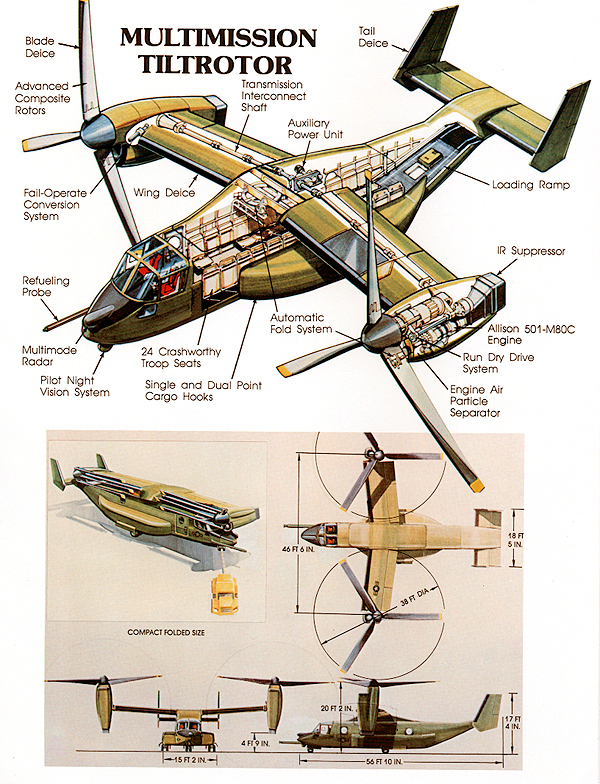 Early concept image of V-22 Osprey. Probably from mid to late-1980s.